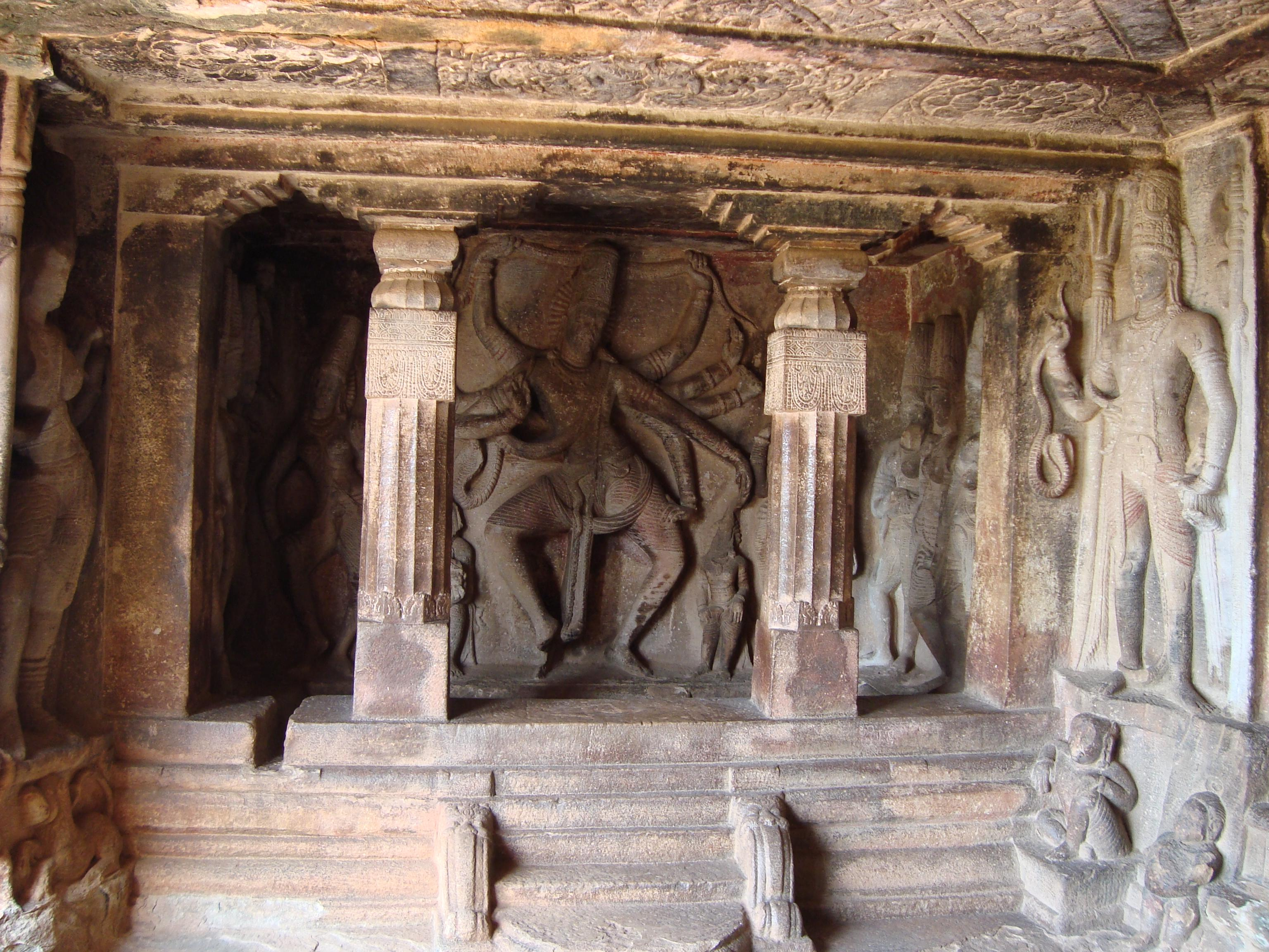 Ravana Phadi cave at Aihole Source and Author : Manjunath Doddamani, Gajendragad/Hubli, Karnataka, India.